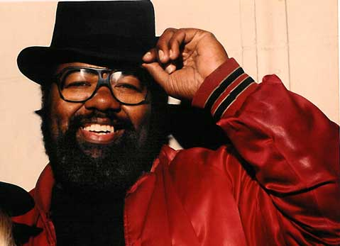 Photo of musician John Bassette